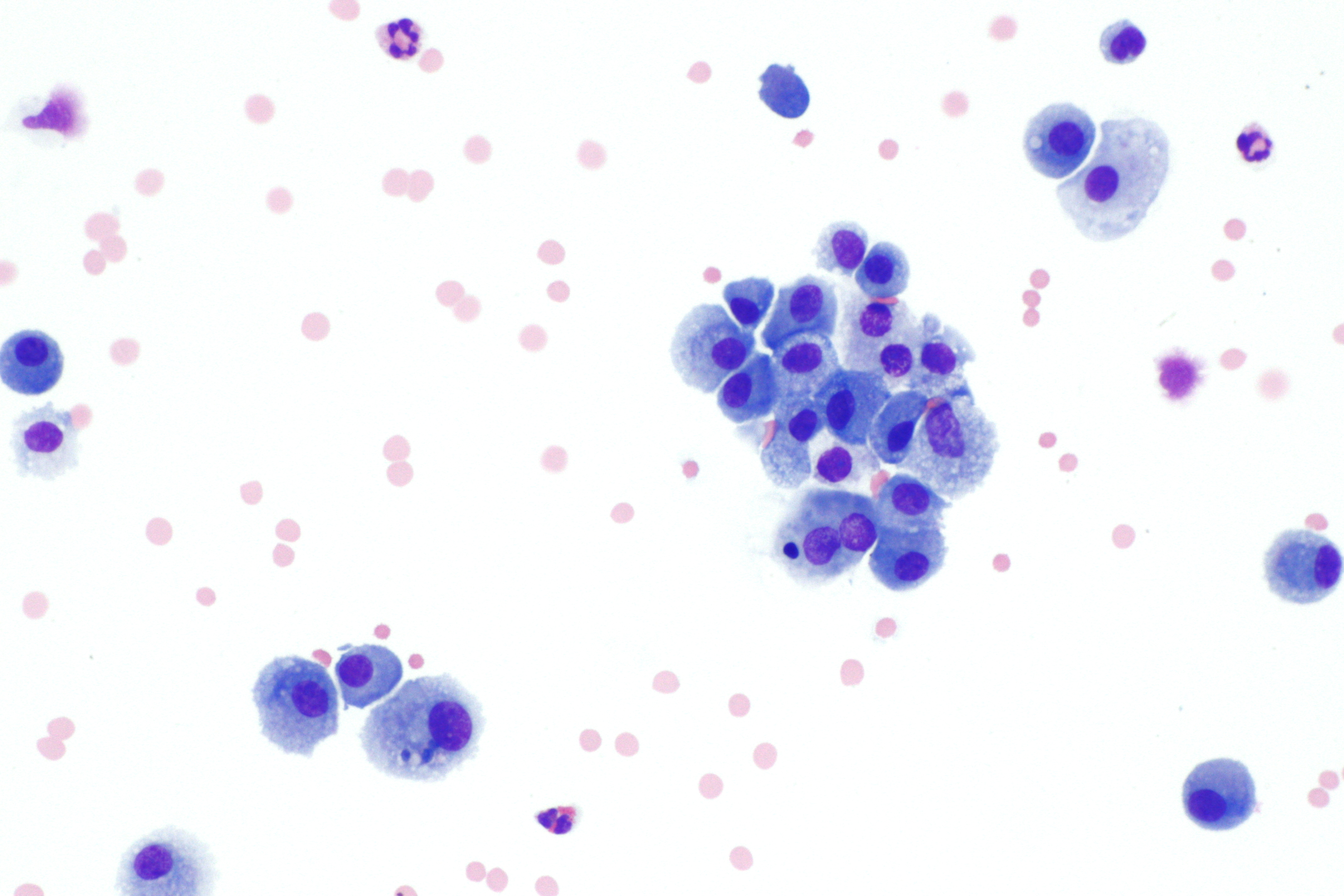 Micrograph showing pulmonary macrophages in a bronchial wash specimen. Diff-Quik stain. Related images Macrophages - high mag. Macrophages - very high mag.